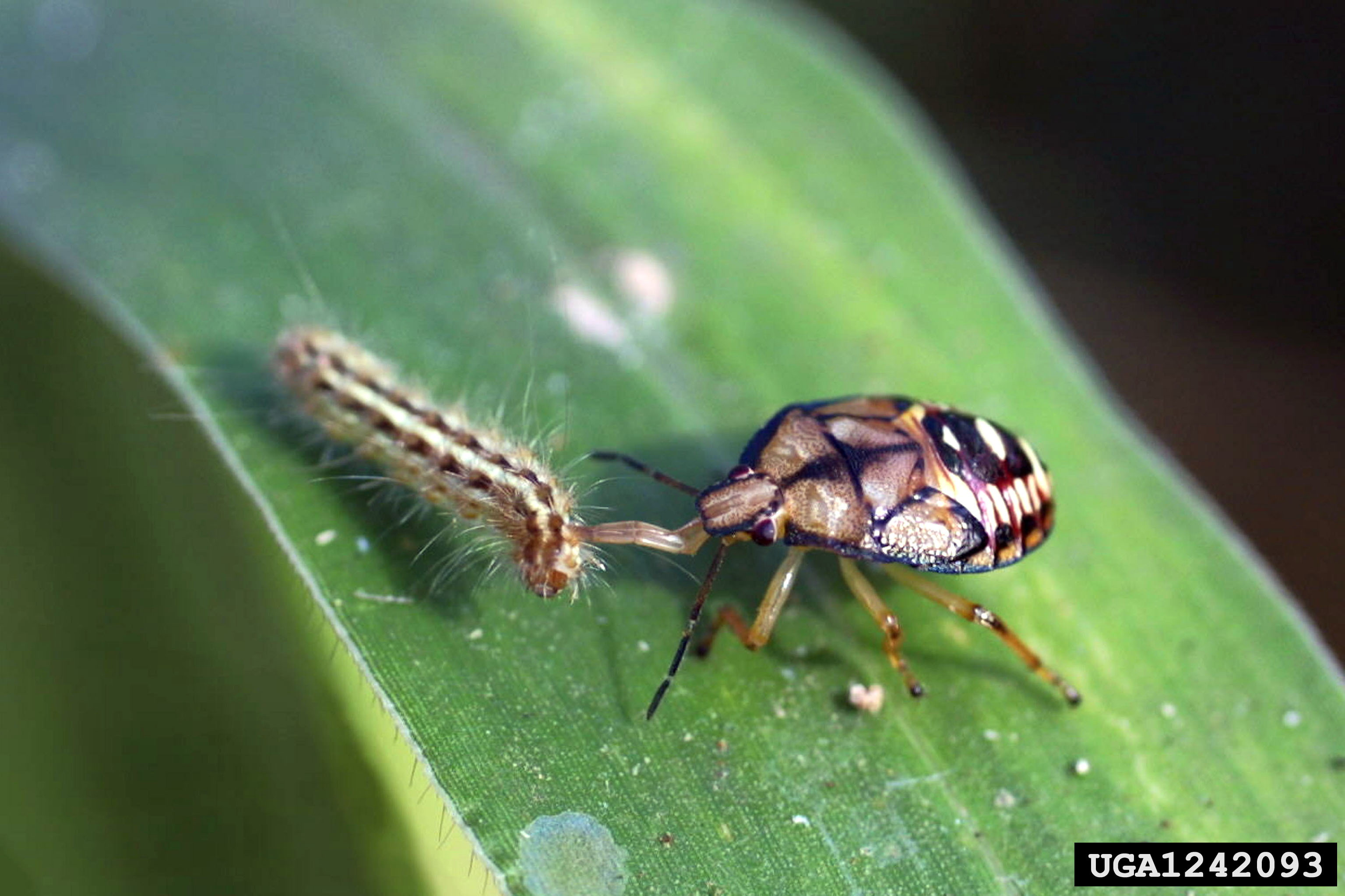 Spined soldier bug (Podisus maculiventris) (nymph) feeding on caterpillar; family Pentatomidae